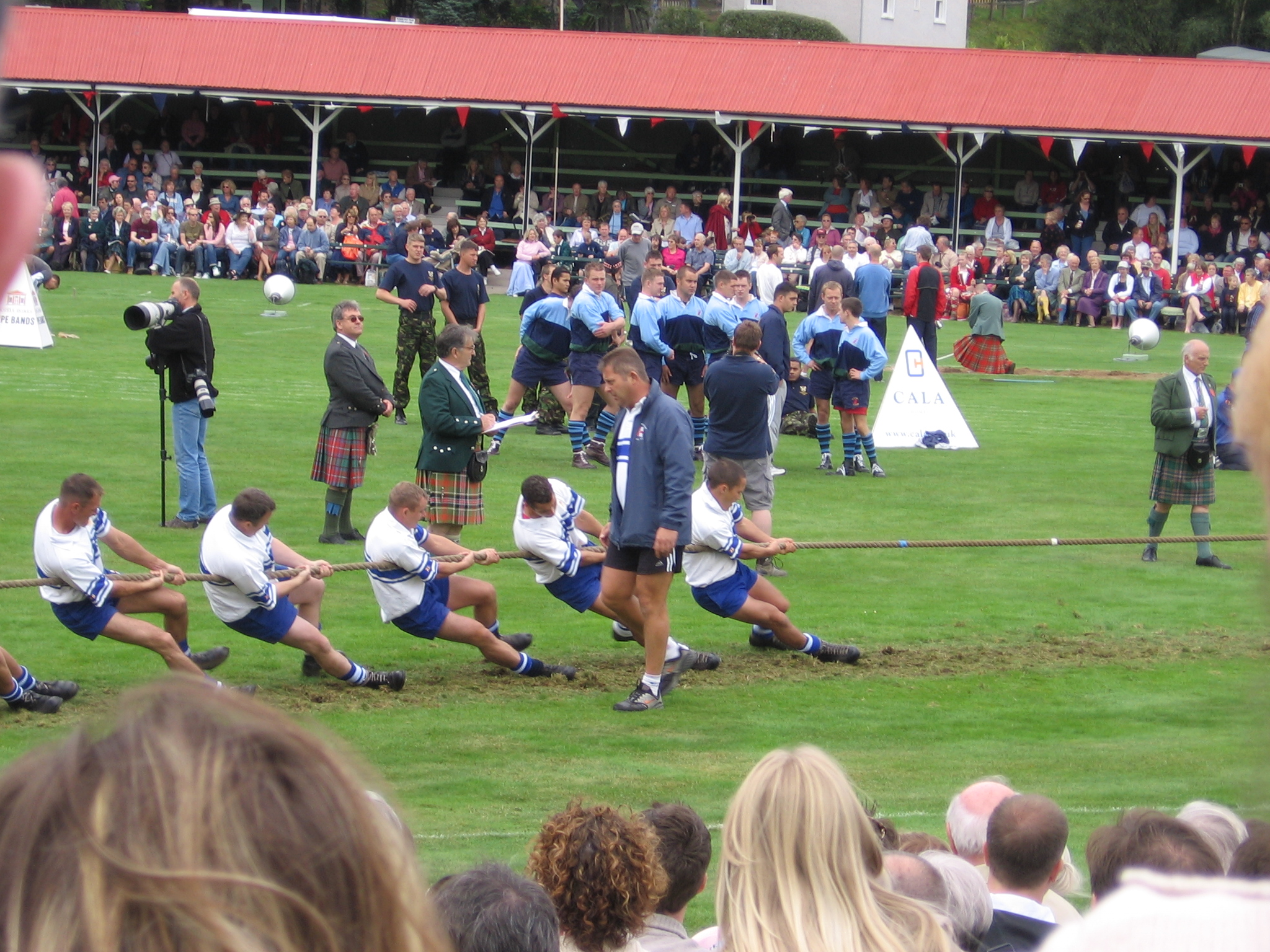 Tug of war.